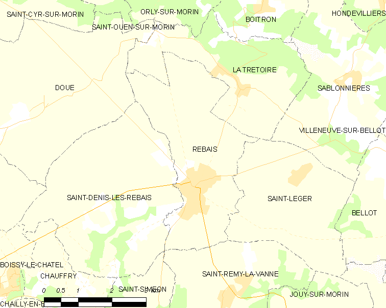 Map of French municipality Rebais